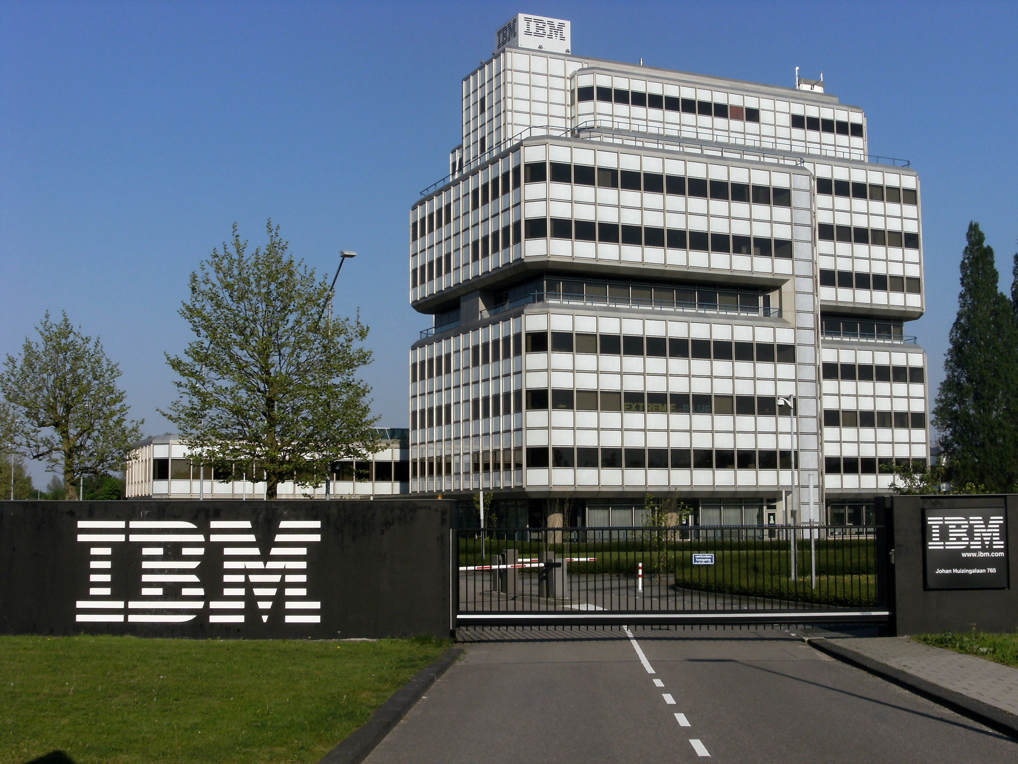 2011-04-25 in Amsterdam; IBM Building; W. Th. Ellerman.